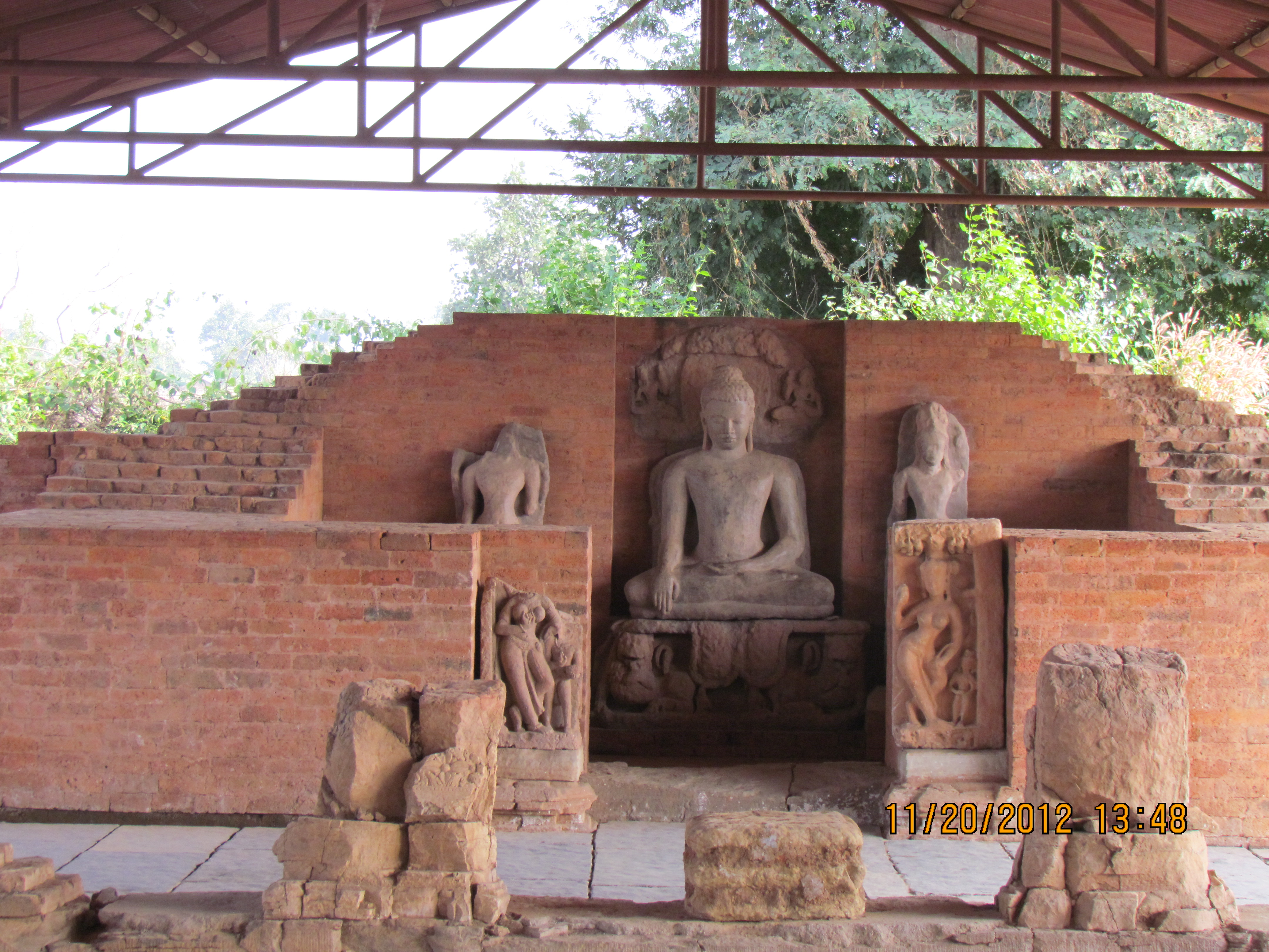 Buddha Vihar